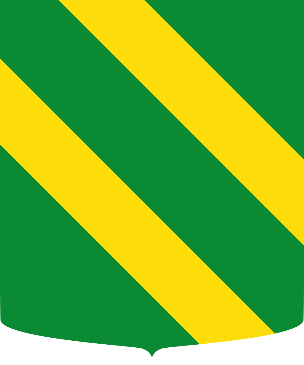 coat of arms Navagero